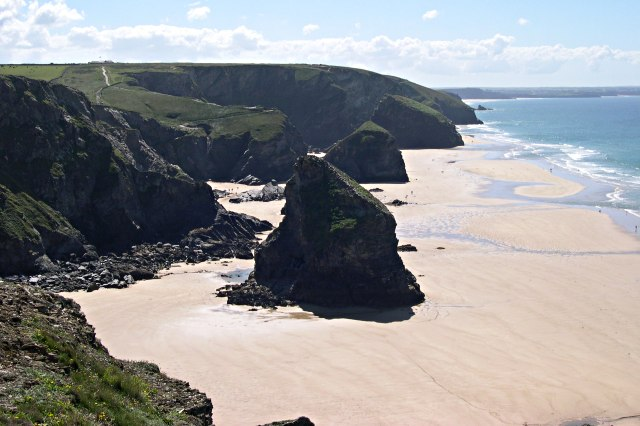 Bedruthan Steps from the north A view of these huge rock stacks from the northern side of the bay.